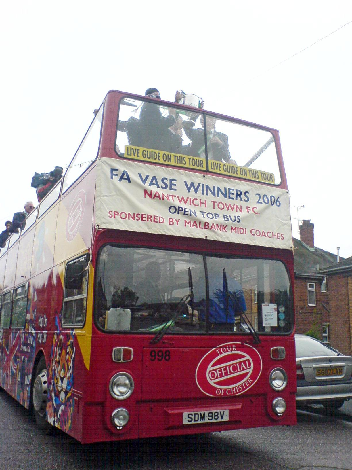 The open-top bus leaves Jackson Avenue. The players and club officials all wore matching suits with green striped ties